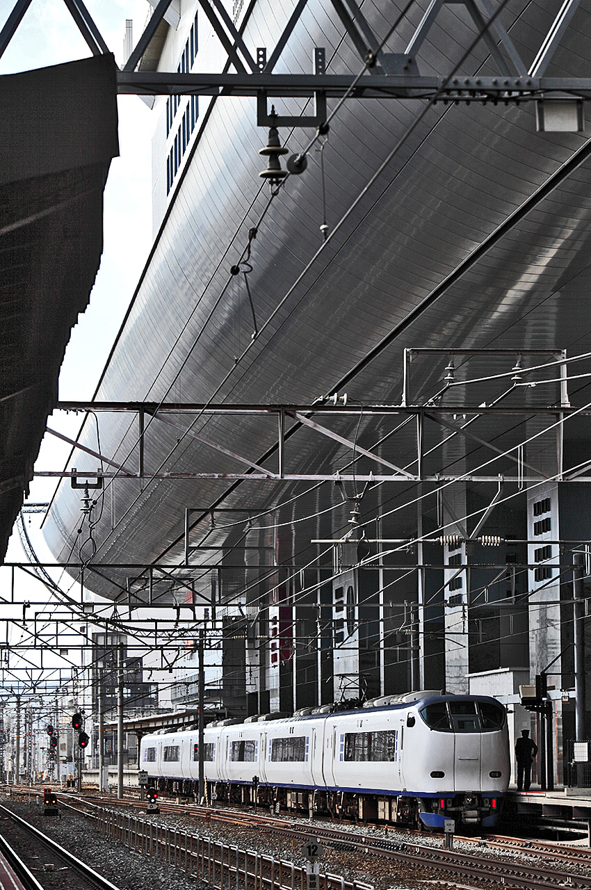 Kansai Airport limited express Haruka on Platform No.30 of JR West Kyoto Station .